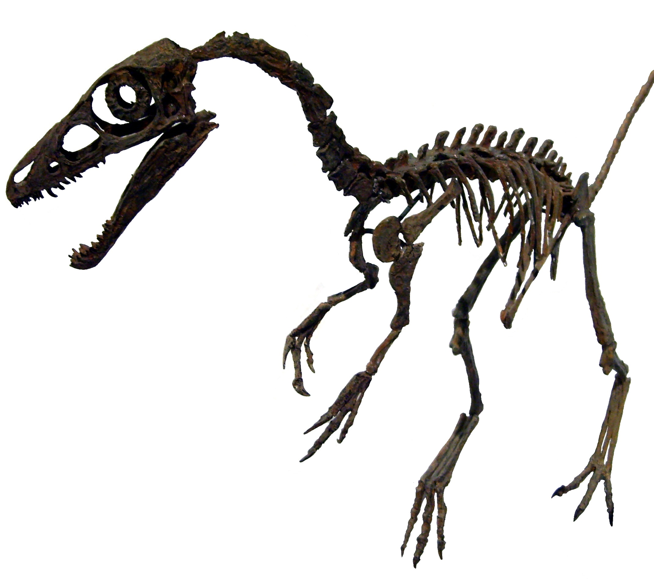 Cast of the skeleton belonging to GMV 2124, formerly classified as Sinosauropteryx, Zoological Museum, Copenhagen.